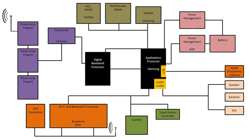 Scheme of an iPhone logicboard